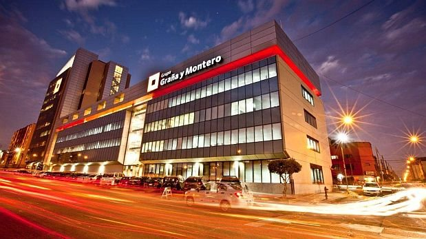 Sede Graña y Montero in Lima in Peru.